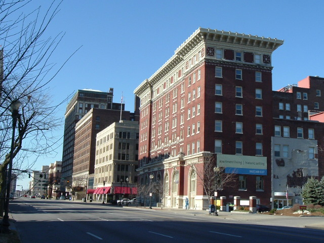 3rd and Broadway in LOUKY.